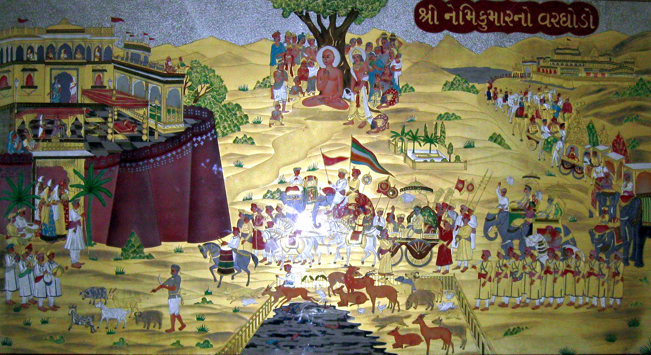 This is a photograph of a plate showing Wedding Procession of Lord Neminatha (22nd Jain tirthankara) . The enclosure shows the animals that are to be slaughtered for food for weddings. Hearing the cries of these animals, Neminath is overcome with compassion and refuses to marry and renounces his kingdom to become a Tirthankara in 200 Years old Parsvanatha Jain Digambara Temple in South Mumbai, CP Tank.